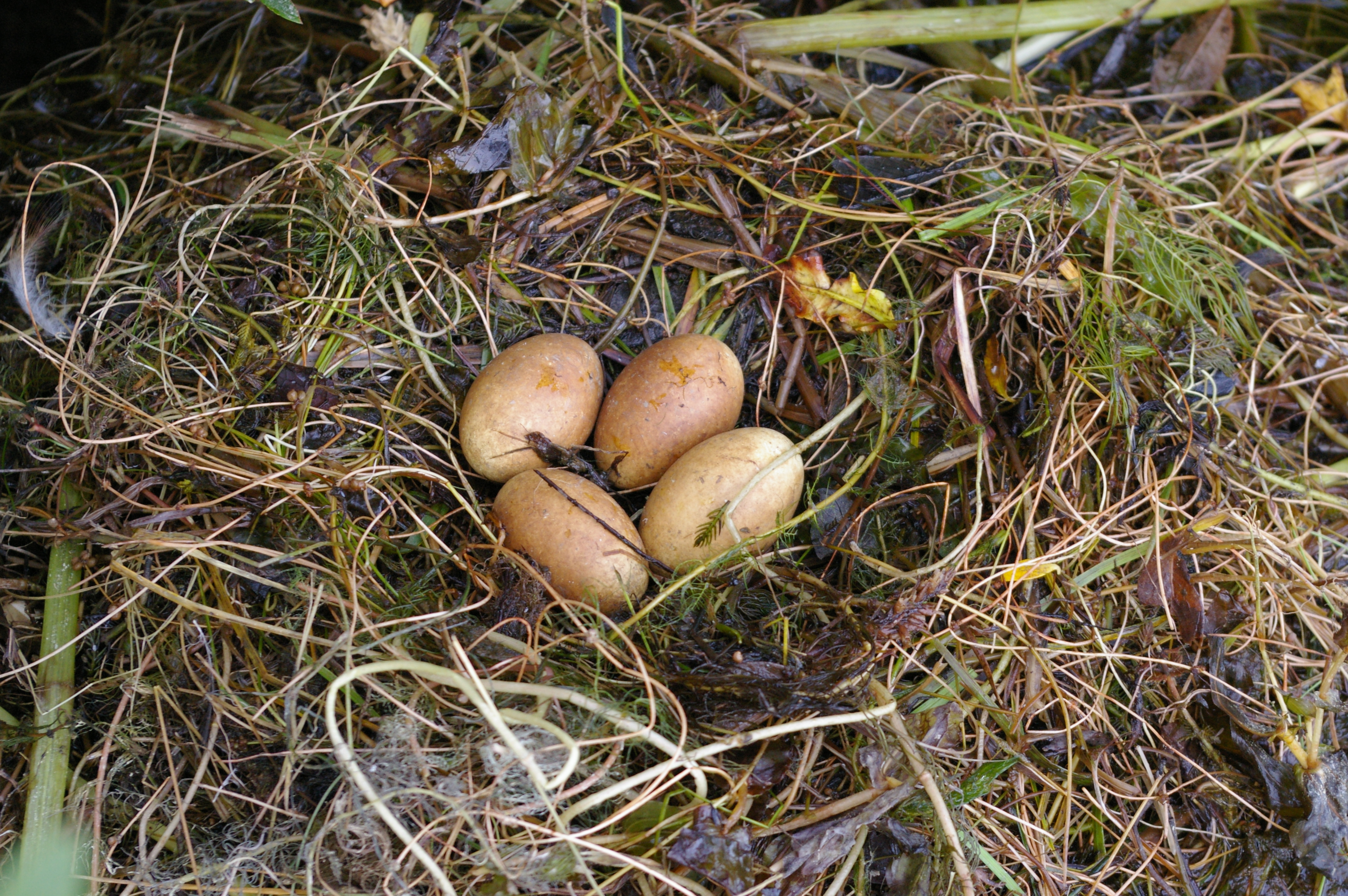 Slavonian Grebe eggs, Myvatn lake, Island.